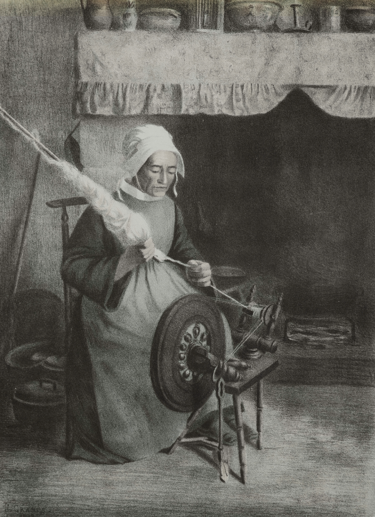 L'Aïeule by Jeanne Granès, lithographic print from L'Estampe moderne, vol. III, Paris, F. Champenois.